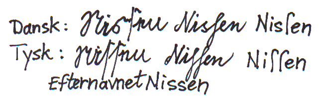 Demonstration of difference in use of 's' in German and Danish gothic script